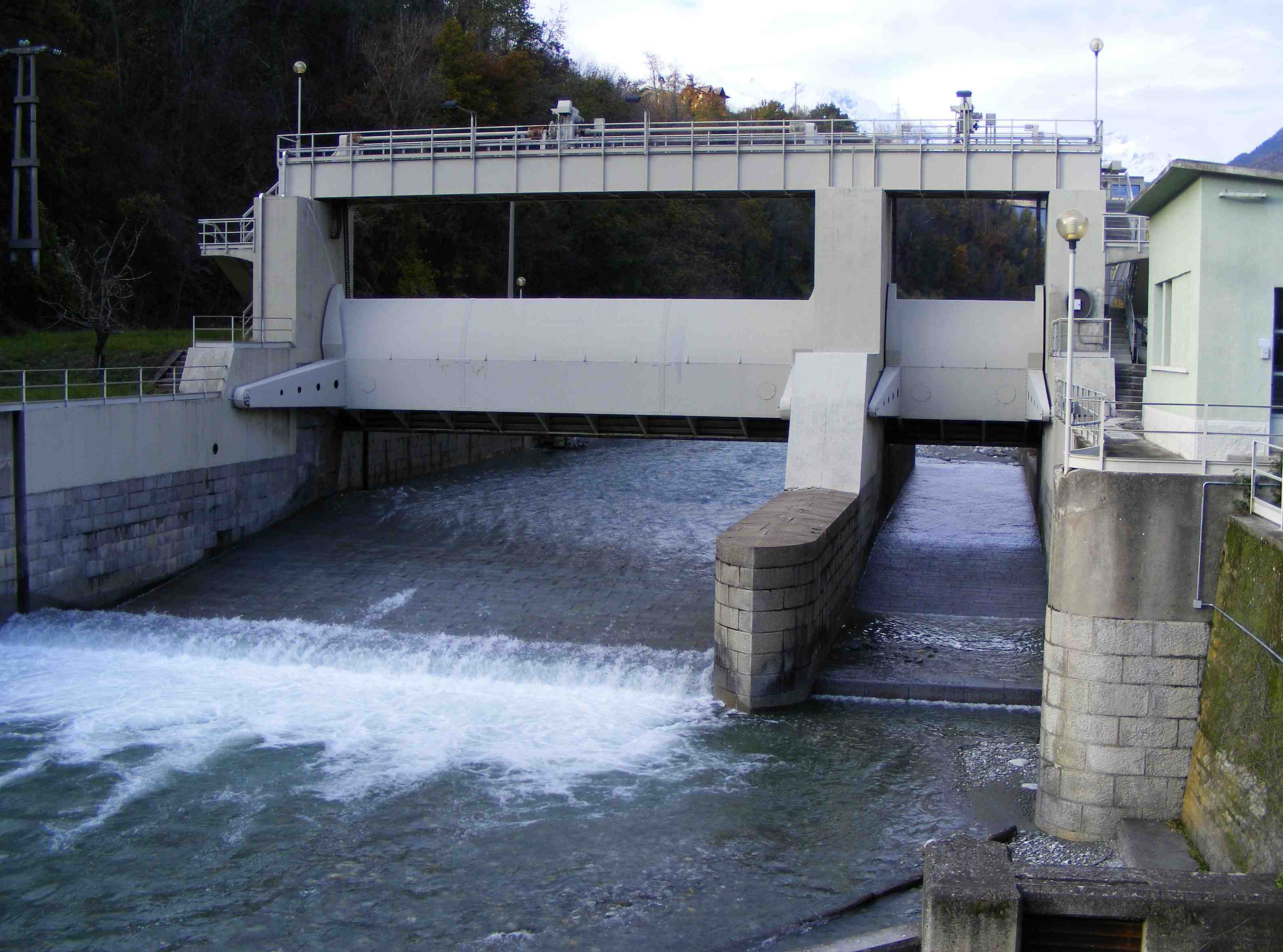 Buthier creek in Aosta (Italy)